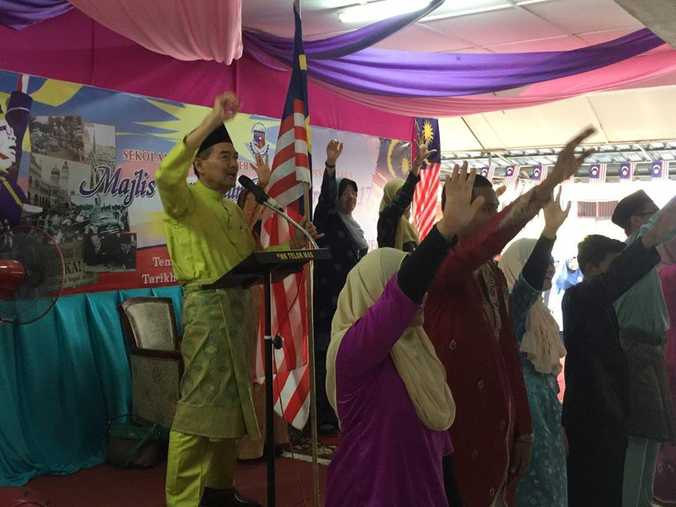 laungan 7 kali kemerdekaan